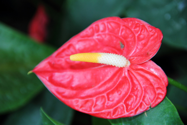 I have no stems but thick and solid leaves, which are dark green and cordate. I have long pointed scarlet, white or green stamens embraced by red or pink spathes. I prefer a temperature between 57.2℉(14℃) and 95℉(35℃) and a humidity ranging from 70% to 80%, mostly reproduced by division, cottage and seeding propagation.